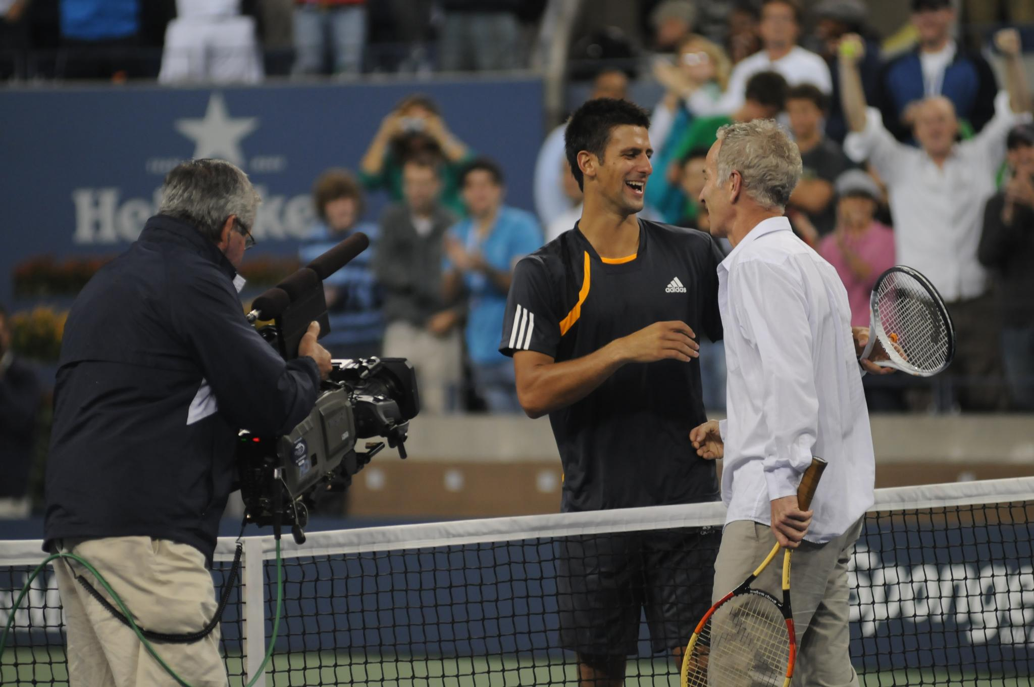 Novak Đoković and John McEnroe at the 2009 US Open